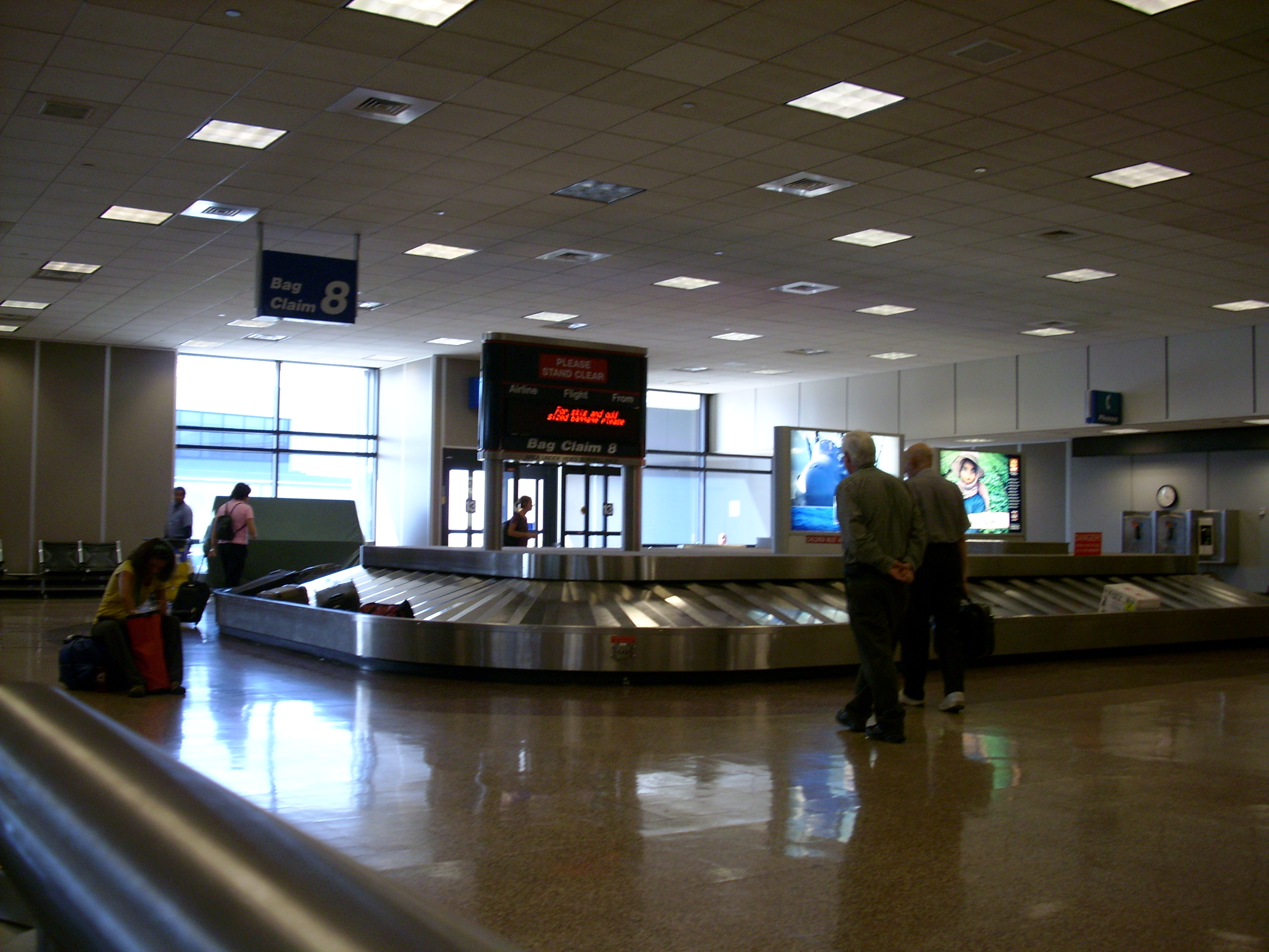 Salt Lake City Airport baggage claim